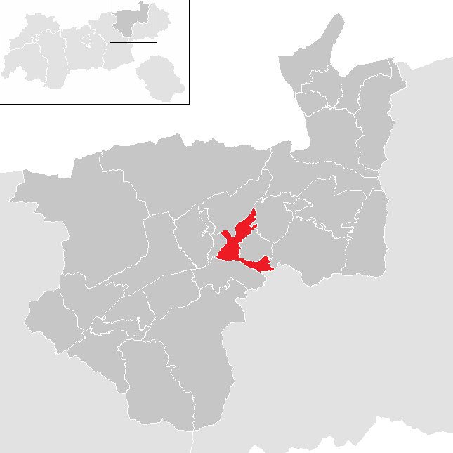 District Kufstein